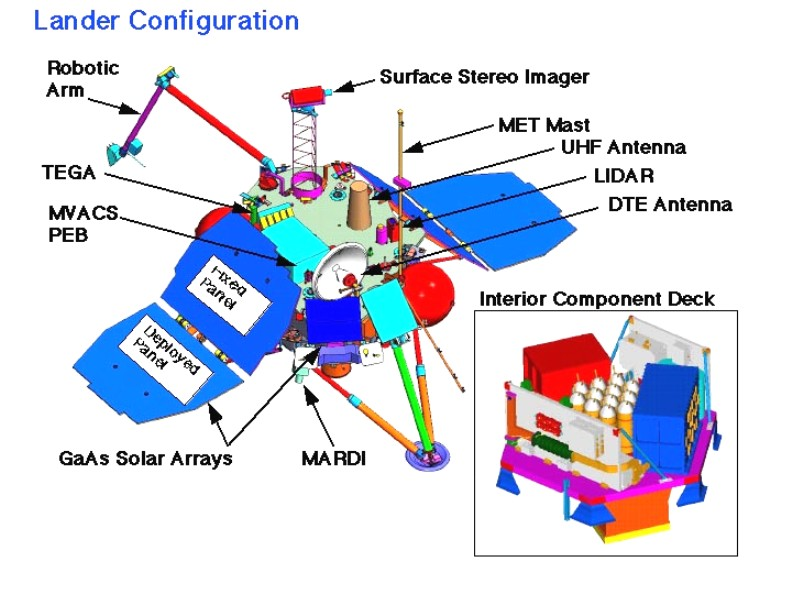 Schematic drawing of the Mars Polar Lander. MVACS is an integrated payload with four major science elements: a Stereo Surface Imager, a Robotic Arm with Camera, a Meteorological package of pressure, temperature, wind, and water vapor sensors, and a Thermal and Evolved Gas Analyzer. Dr. David Paige (UCLA) is the Principal Investigator for the MVACS